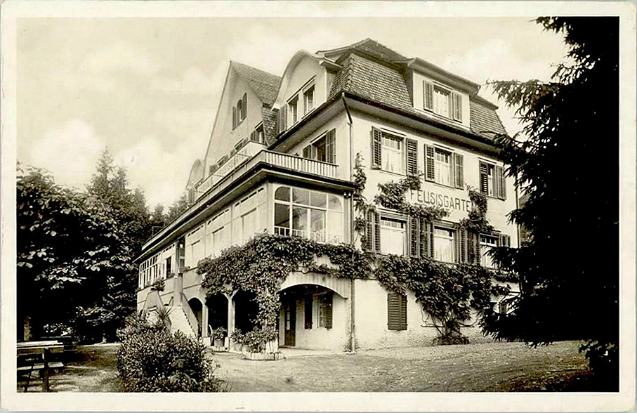 Photograph of the recreation hotel Feusisgarten in Feusisberg, Canton Schwyz, Switzerland, around 1941